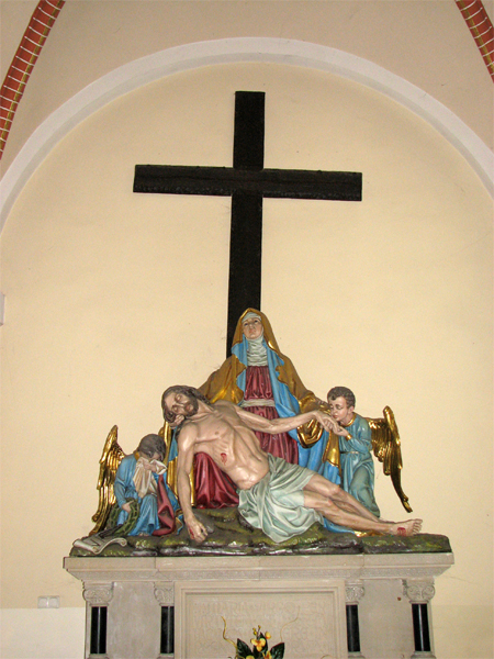 Altar of Our Lady of Sorrows, Basilica in Katowice Panewniki, Poland.